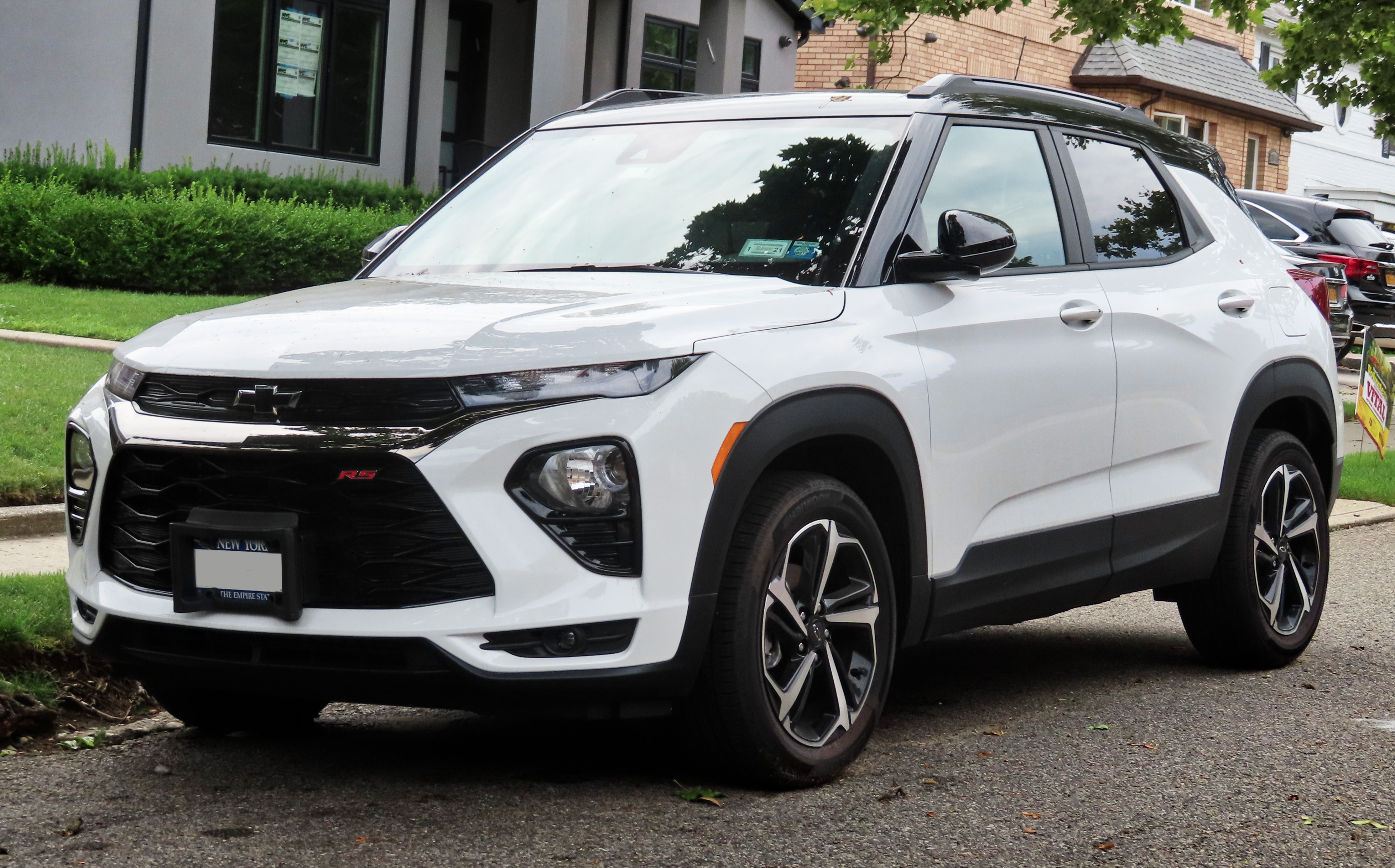 A 2021 Chevrolet TrailBlazer RS photographed in Kew Gardens Hills, Queens, New York, USA